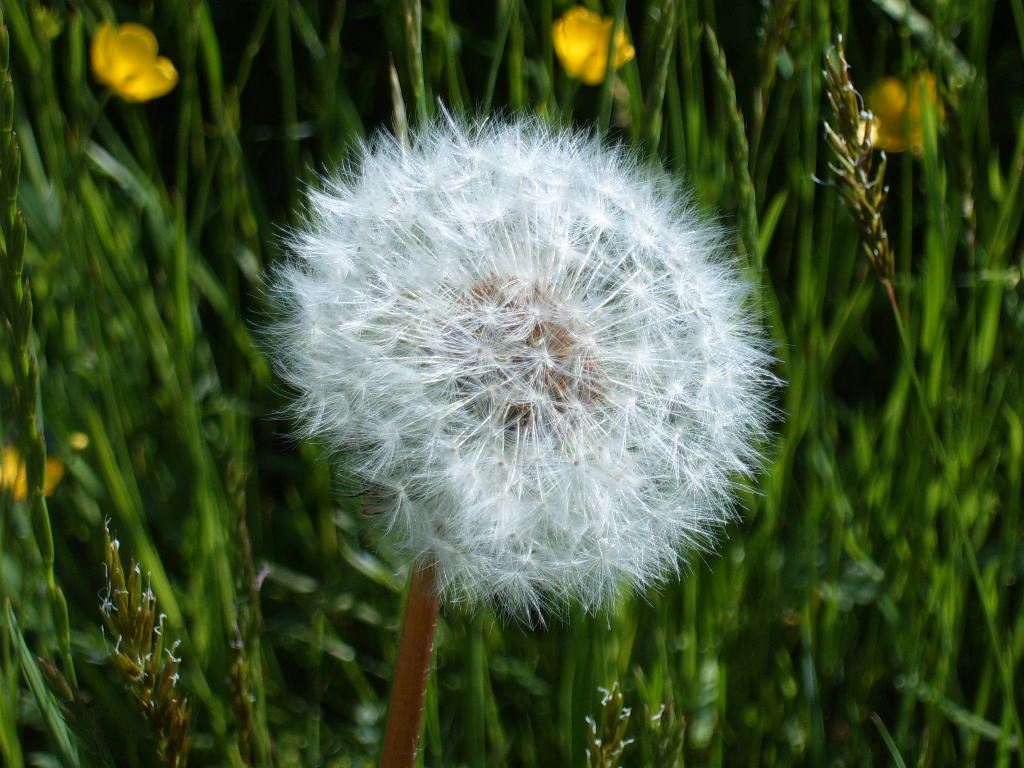 Dandelion clock (Taraxacum officinale) For more translations SEE BELOW